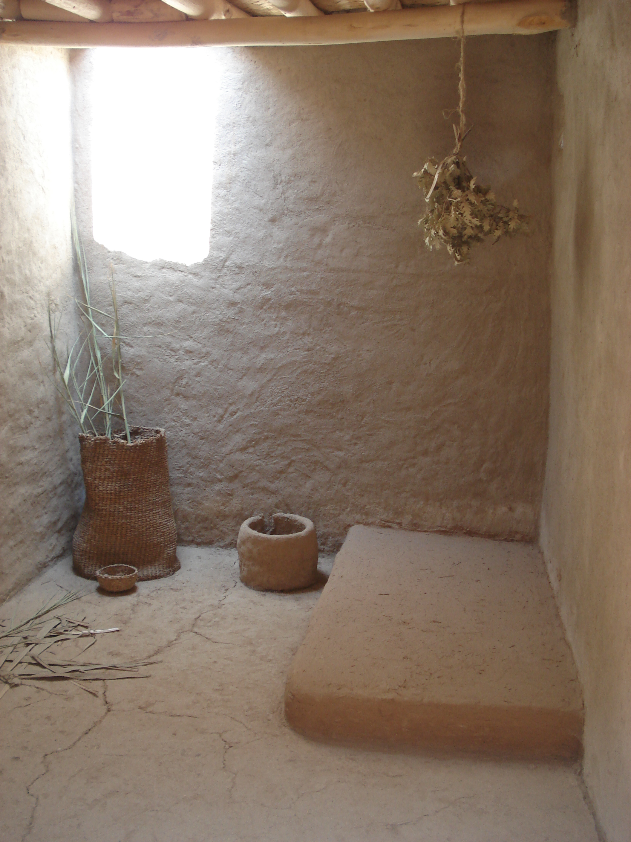 Inside a reconstructed house, Aşıklı Höyük